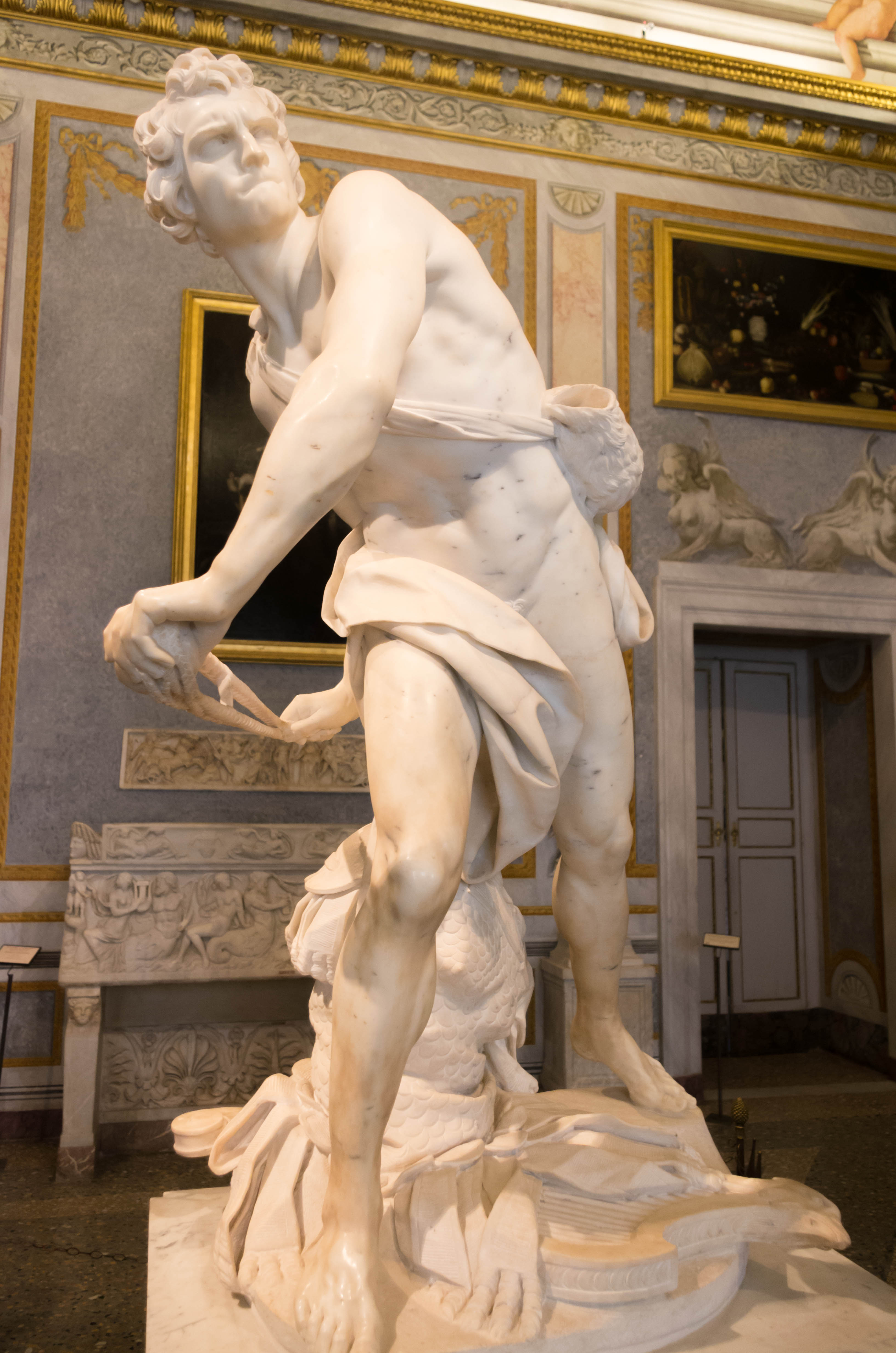 Sculptures in the Galleria Borghese (Rome)